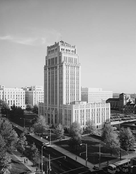 Atlanta City Hall — 68 Mitchell Street Southwest in South Downtown, Atlanta, Fulton County, GA. — Elevated view showing north (main) and west elevations